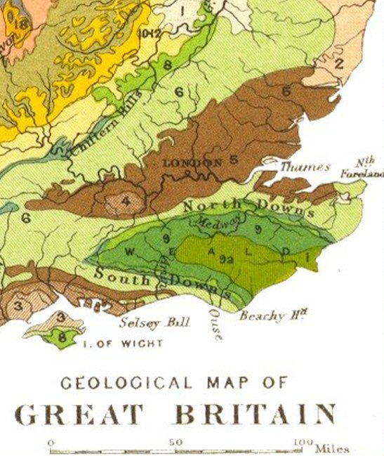 This is part of File:Geological map of Great Britain.jpg.